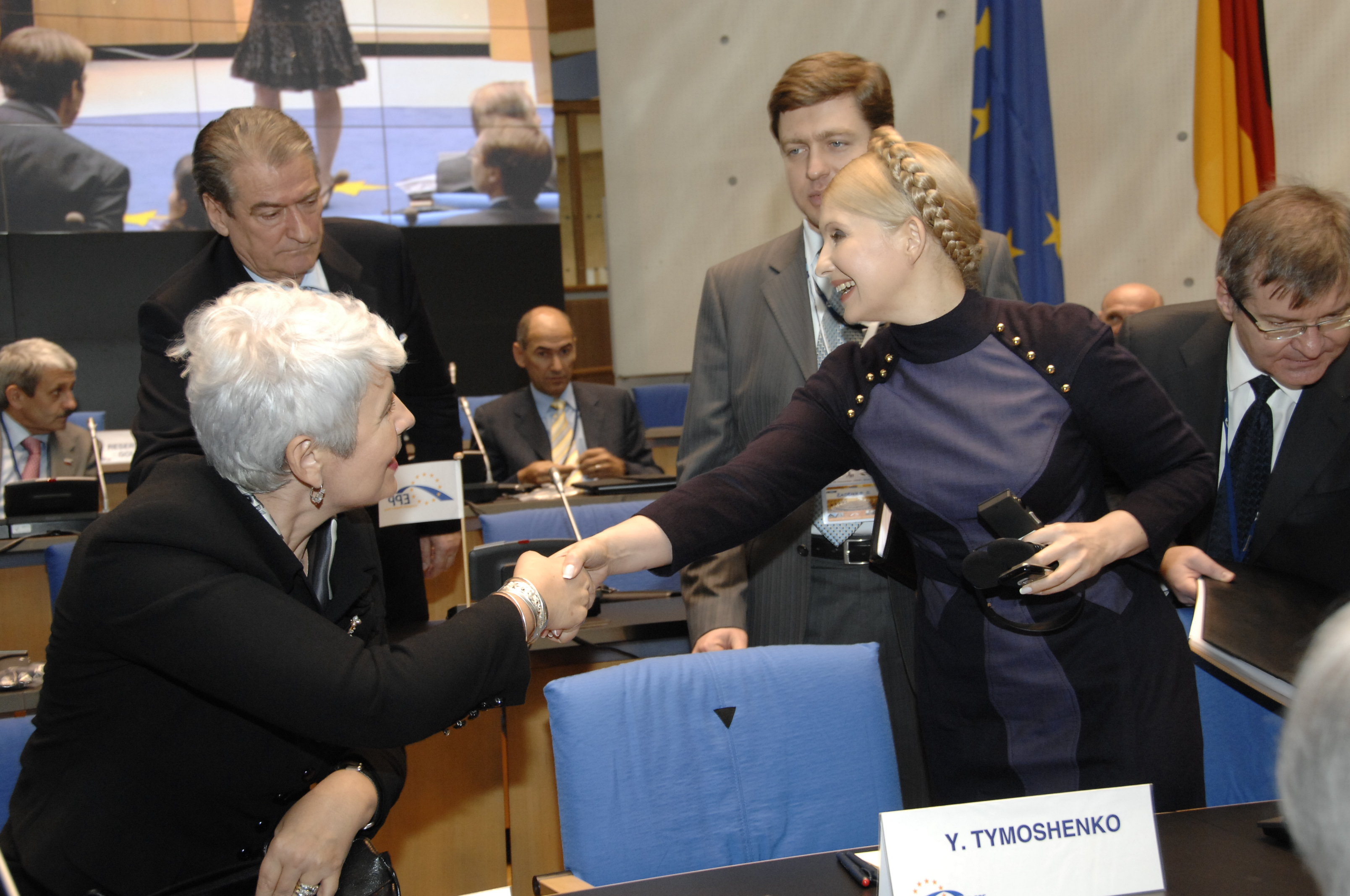 EPP Congress Bonn